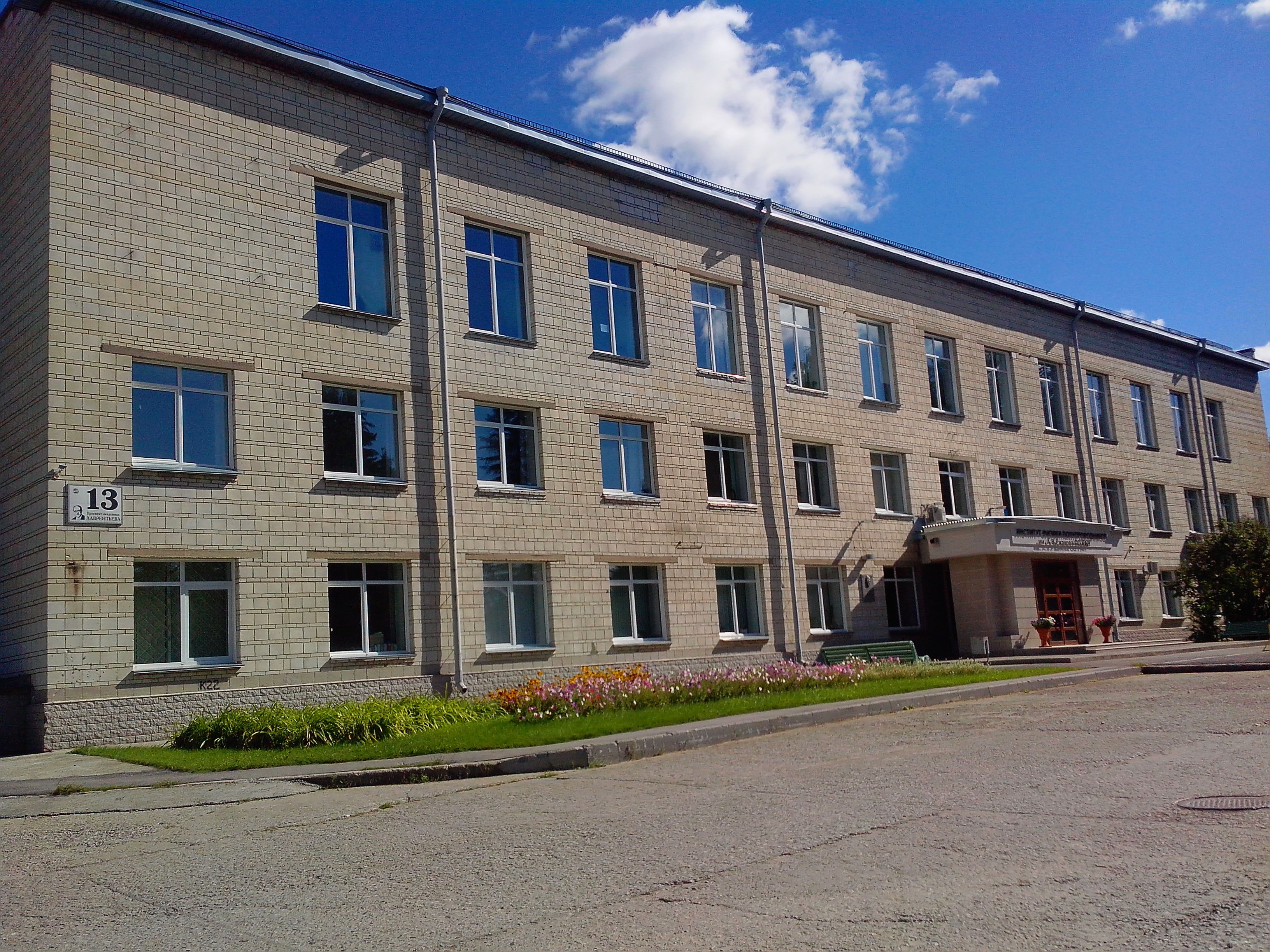 Rzhanov Institute of Semiconductor Physics, Siberian Branch of the Russian Academy of Sciences, Novosibirsk, Russia